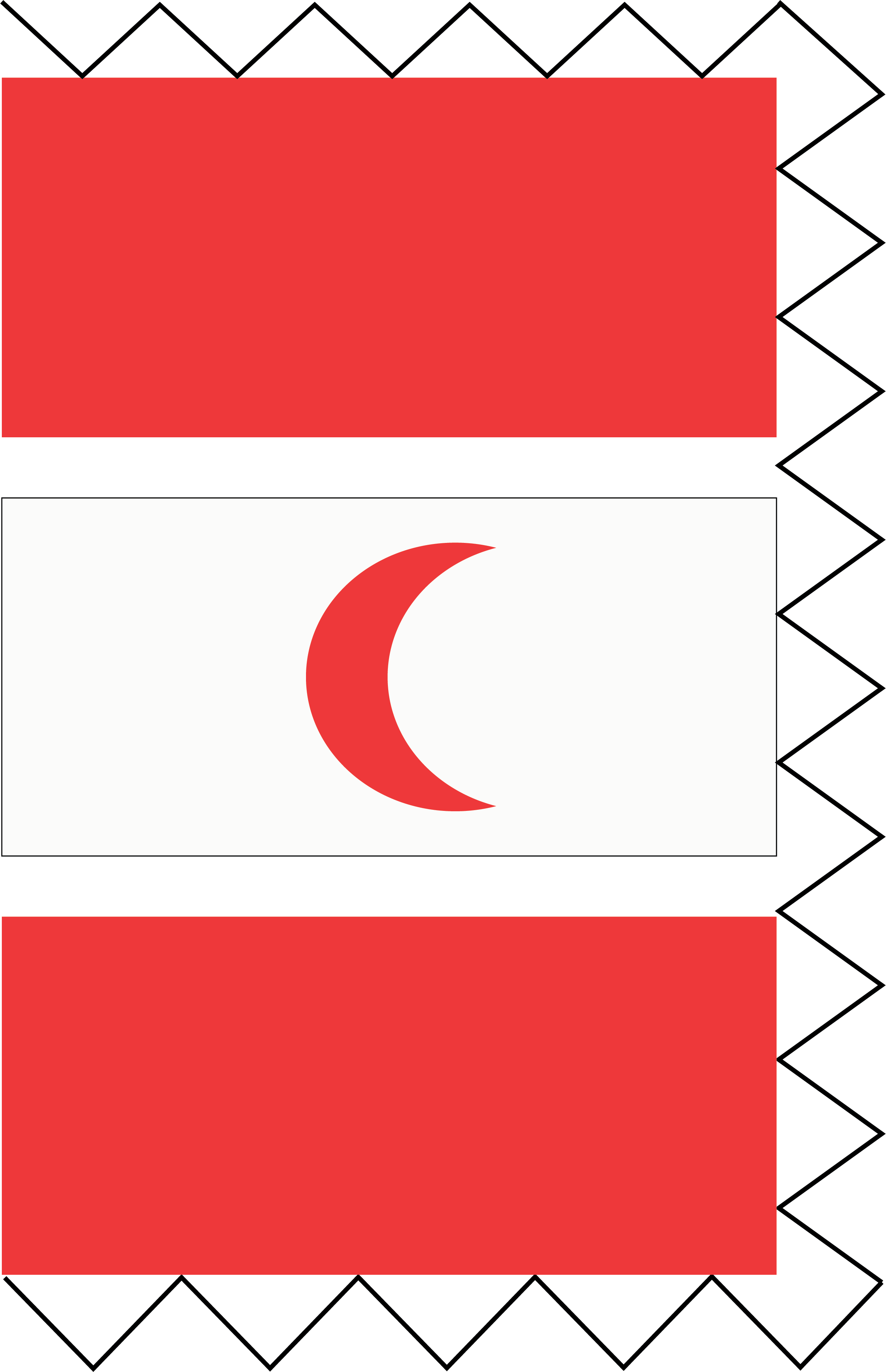 Based on David Nicolle "Armies of the Muslim Conquest" illustrations by Angus McBride. And Martin Hinds "The Banners and Battle Cries of the Arabs at Siffin" Al-Abhath XXIV